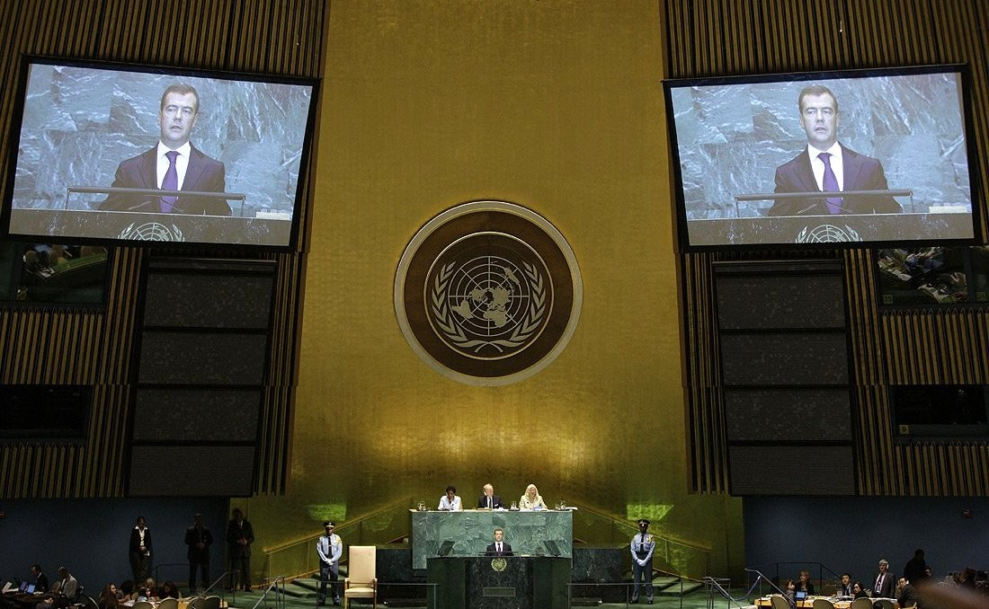 NEW YORK. Speech at 64th session of UN General Assembly.